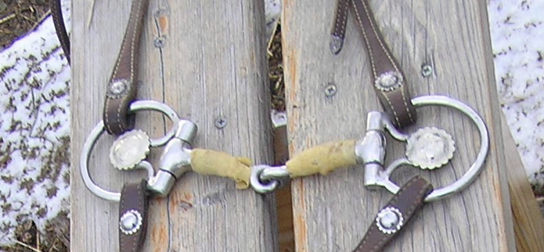 A snaffle bit with western styling, also wrapped in rubber to make it milder. Ring shape is in D-Ring/ Eggbutt family